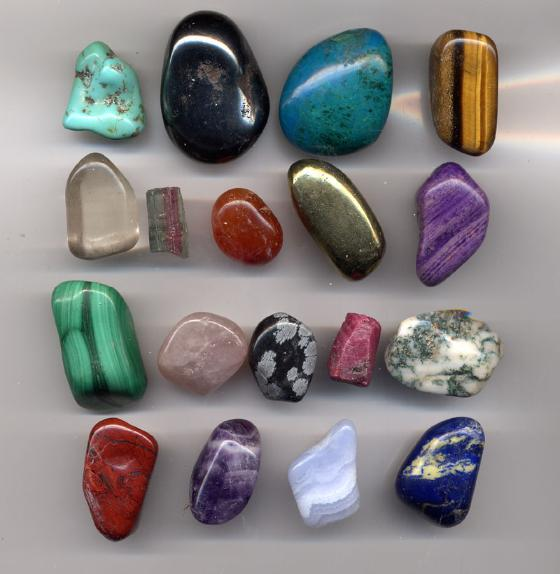 Gem image requested by German Wikipedia, used on Edelstein and Heilstein. Also used on Chinese Wikipedia: 寶石 (Traditional Chinese) and 宝石 (Simplified Chinese). And of course, the basis of what's on Gemstone as well. Labels First row: turquoise, hematite, chrysocolla, tiger's-eye Second row: quartz, tourmaline, carnelian, pyrite, sugilite Third row: malachite, rose quartz, snowflake obsidian, ruby, moss agate Forth row: jasper, amethyst, blue lace agate, lapis lazuli